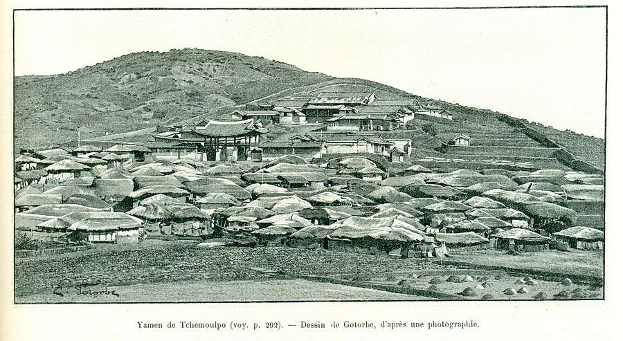 Chemulpo government office at 1888 pictured by Charles Varat, French tourist visited Korea at 1888-1889.